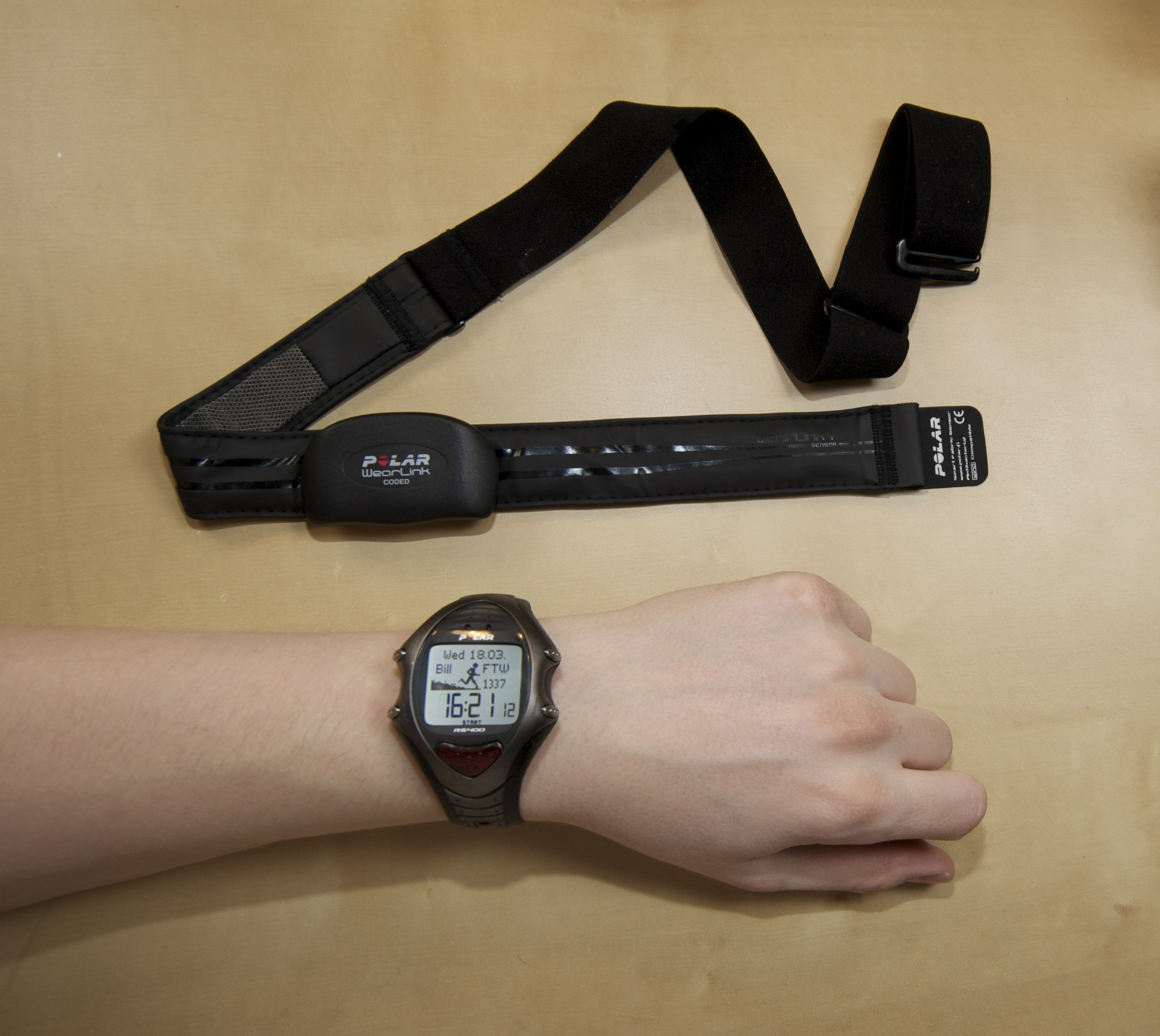 A heart rate monitor showing chest strap and watch.